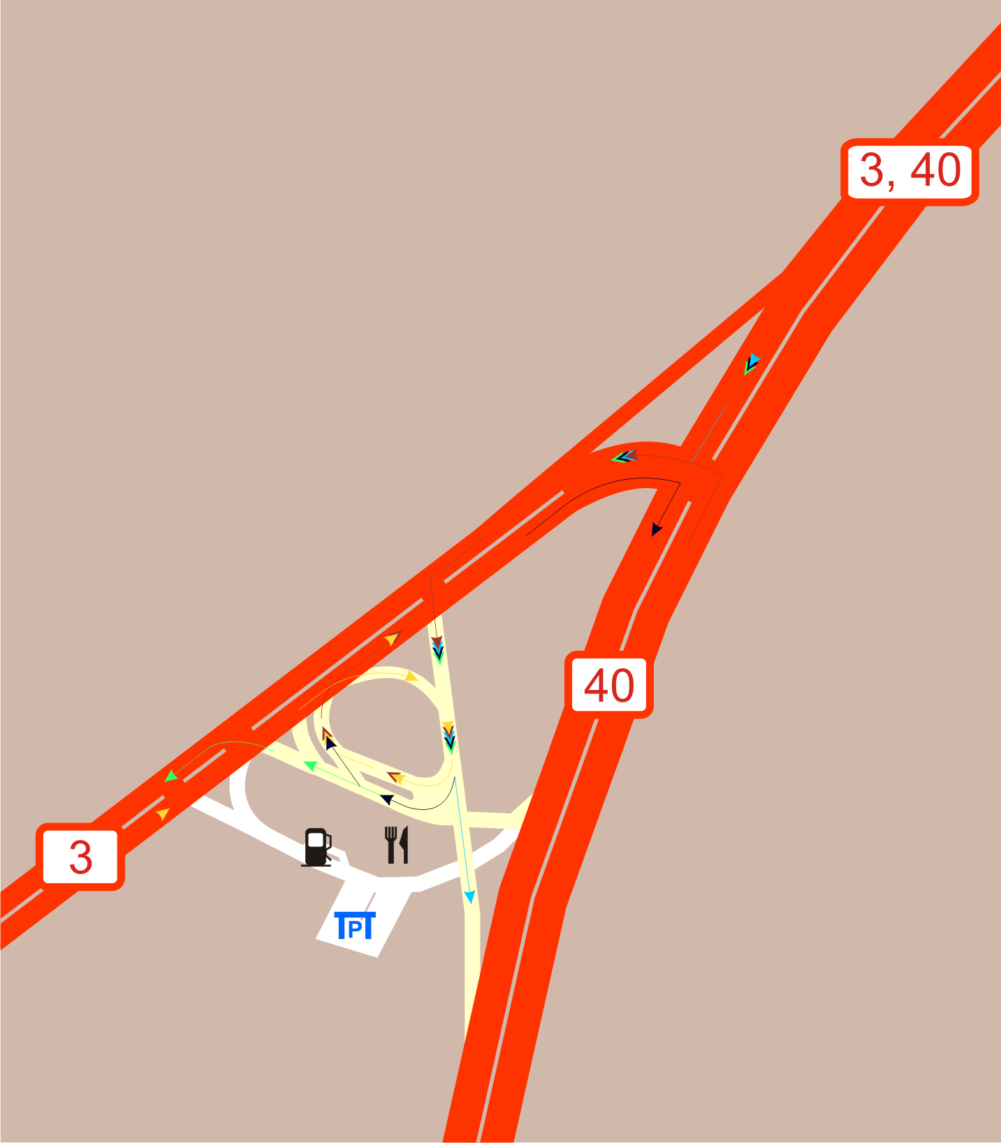 Road/street map of the Malakhi Junction (Qastina) in southern Israel.